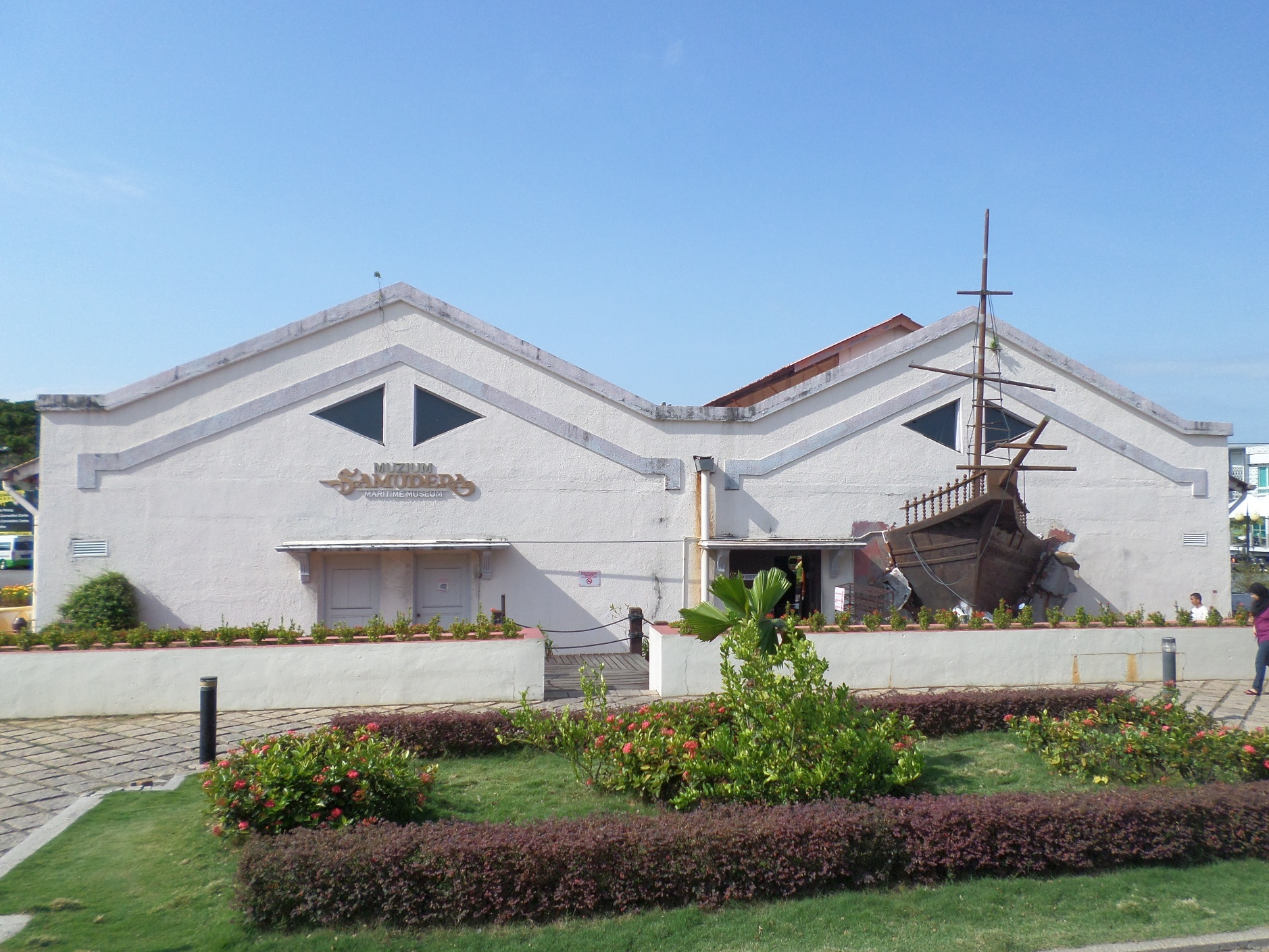 Maritime Museum, Central Malacca, Malacca, MalaysiaBahasa Melayu: Muzium Samudera, Melaka Tengah, Melaka, Malaysia